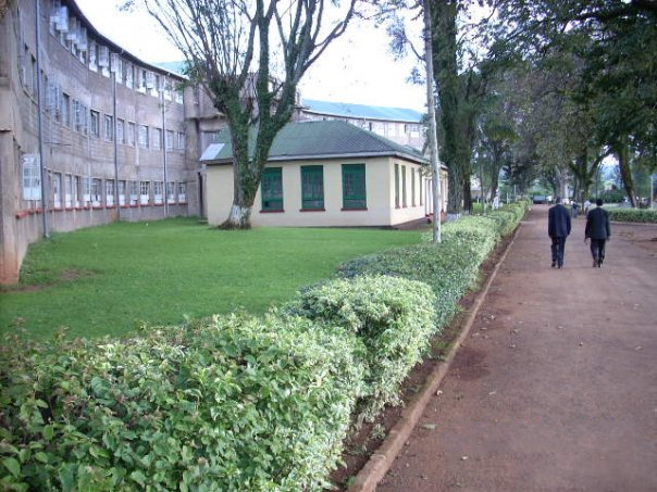 main entrance presents a sereine atmosphere for education